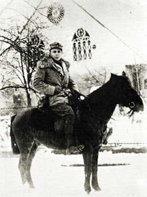 Franjo Malgaj, Slovene military officer, poet and political activist.